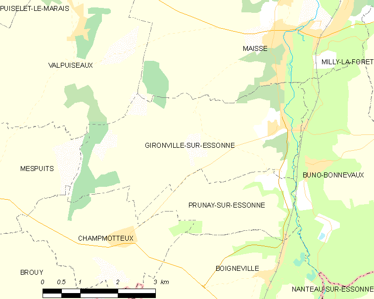 Map of French municipality Gironville-sur-Essonne